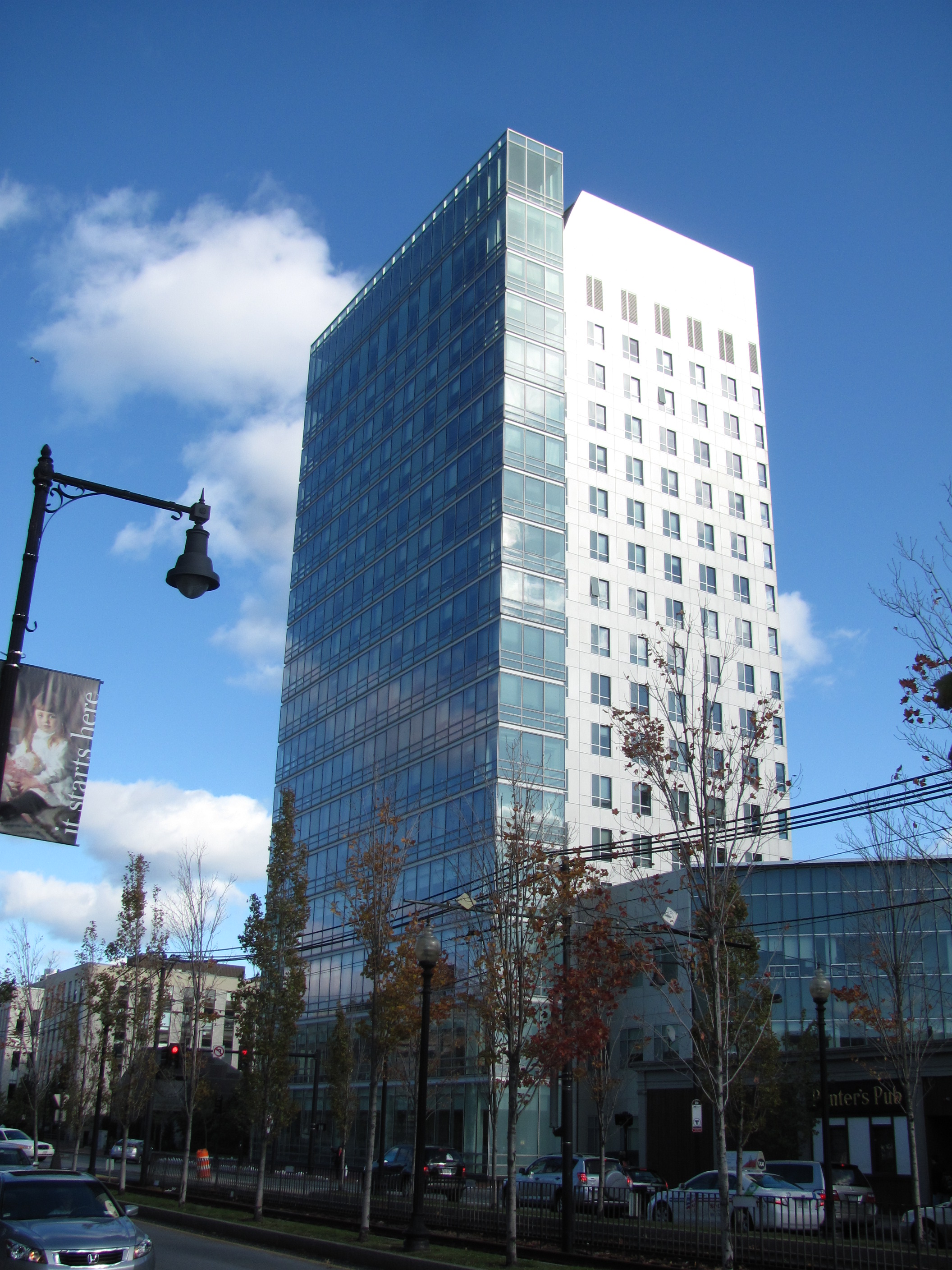 West Village Residence H, Northeastern University, Boston Massachusetts